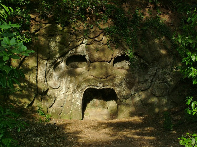 Frascati, Villa Aldrobandini - Garden Monster.